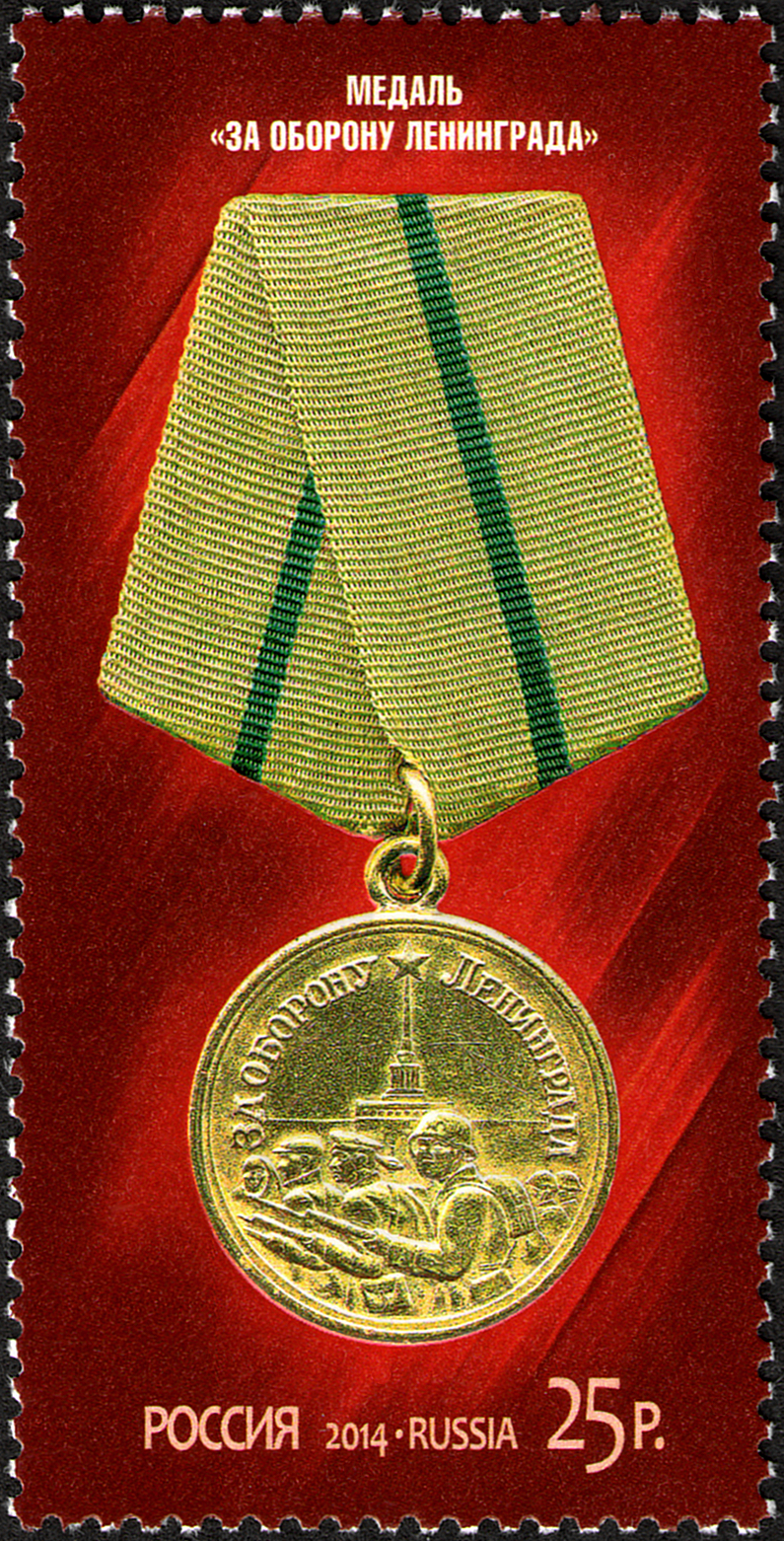 Soviet medals for defensive actions of the Great Patriotic War (ongoing stamp series). The Medal „For the Defence of Leningrad“. The stamp of Russia, 25.00 Rubles, 7 July 2014, PTC Marka Catalogue No 1838. Coated paper. Offset printing, varnish coating, relief printing. Perforation: comb 12×12. Size of the stamp: 32.5×65 mm. Print run: 280,000.